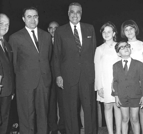 From left to right: Syrian Ambassador to Egypt Sami Droubi, Syrian President Nureddin al-Atassi, Egyptian President Gamal Abdel Nasser and Droubi's children. They are attending a dinner party at Droubi's home.